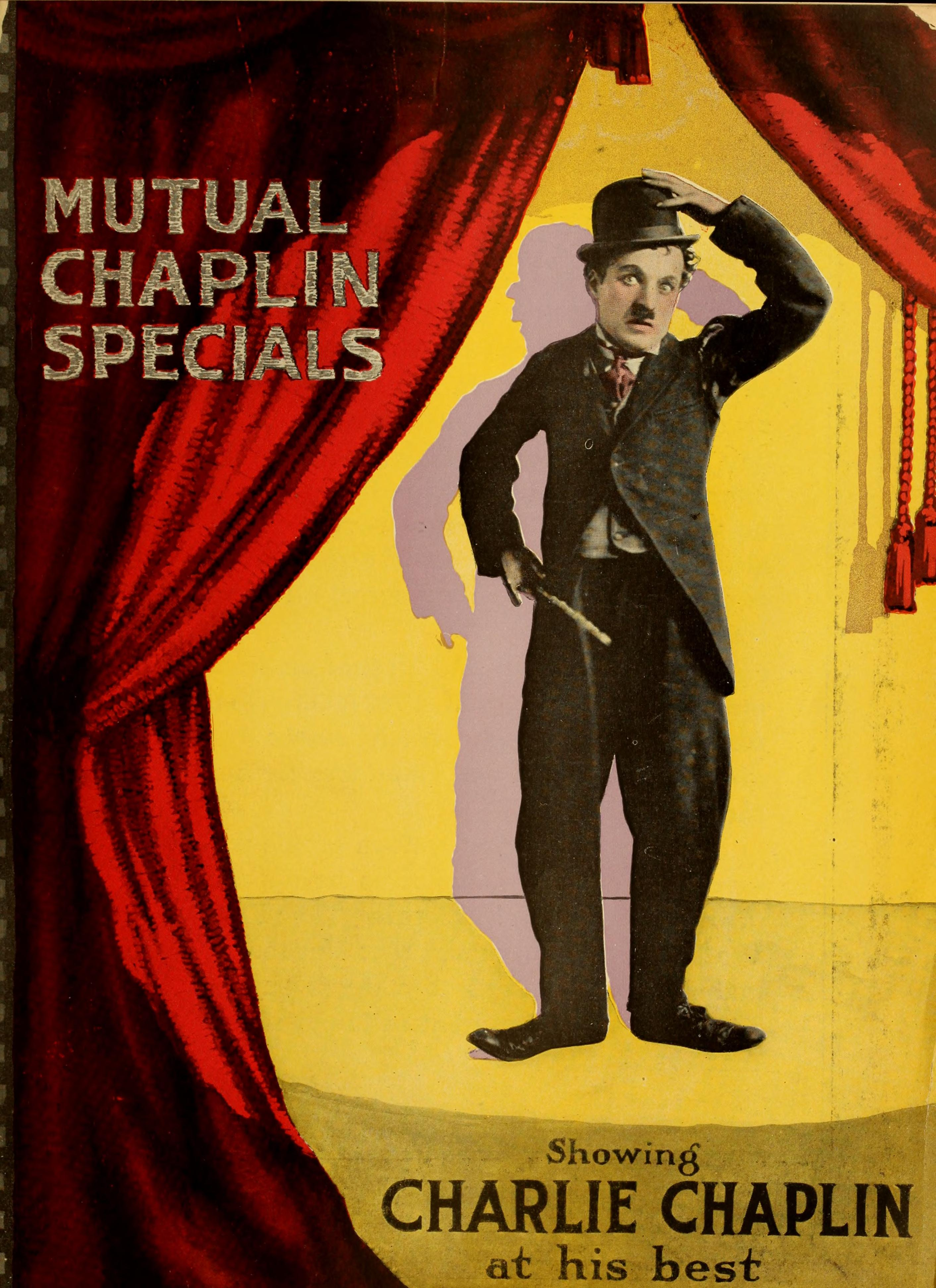 Advertisement in The Moving Picture World